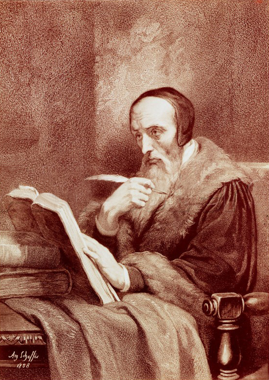 John Calvin